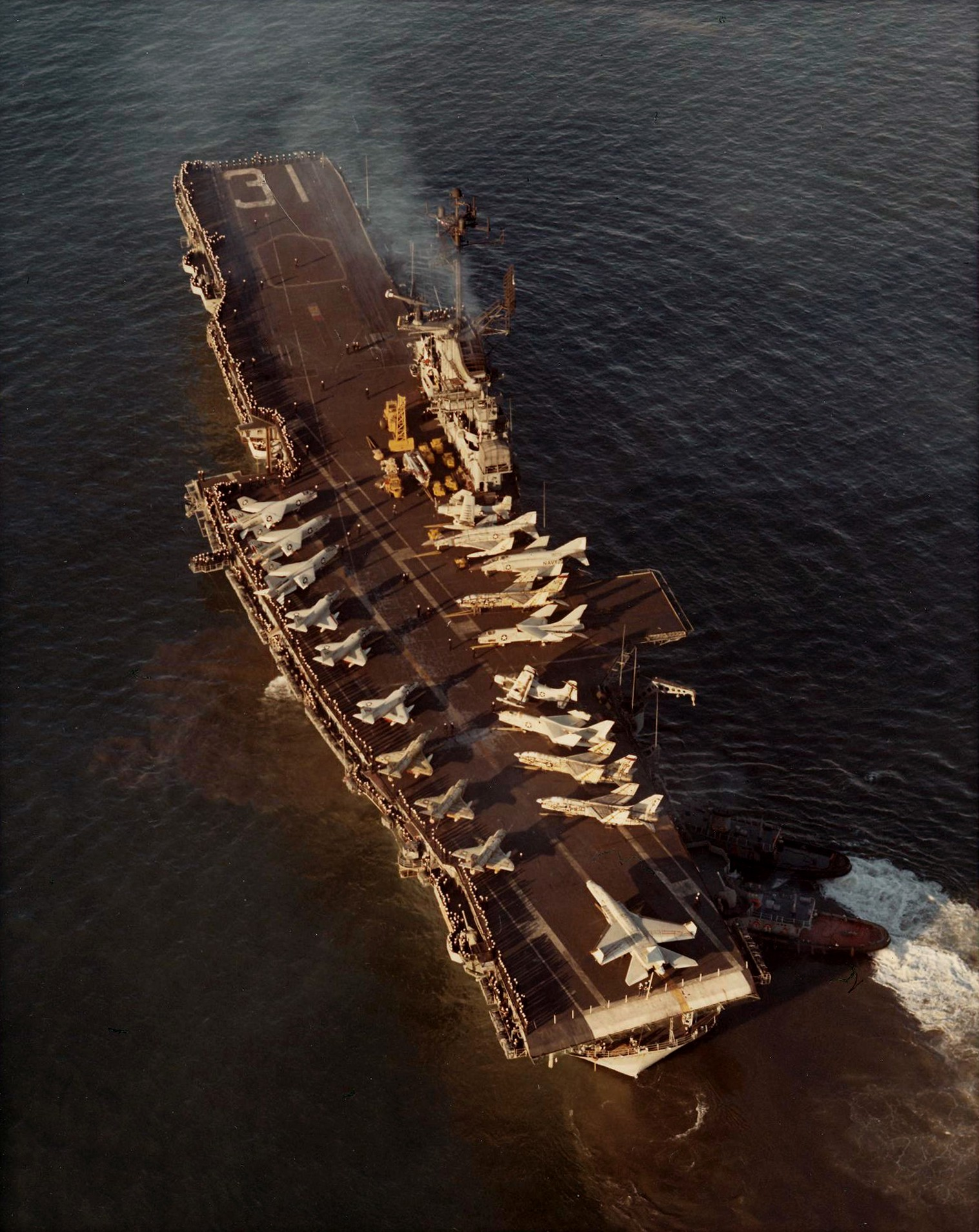 The U.S. Navy aircraft carrier USS Bon Homme Richard (CVA-31) off San Diego, California (USA), probably upon return from her last deployment. BHR had been deployed to the Western Pacific and Vietnam with Carrier Air Wing 5 (CVW-5) from 20 April to 12 November 1970. She was decommissioned 2 July 1971. Note that among the aircraft on her deck are two McDonnell Douglas F-4 Phantom and a North American RA-5C Vigilante, aircraft that were actually never deployed on any Essex-class carrier. The other aircraft wear the tail code of CVW-19 that was assigned to the BHR from 1958 to 1966.